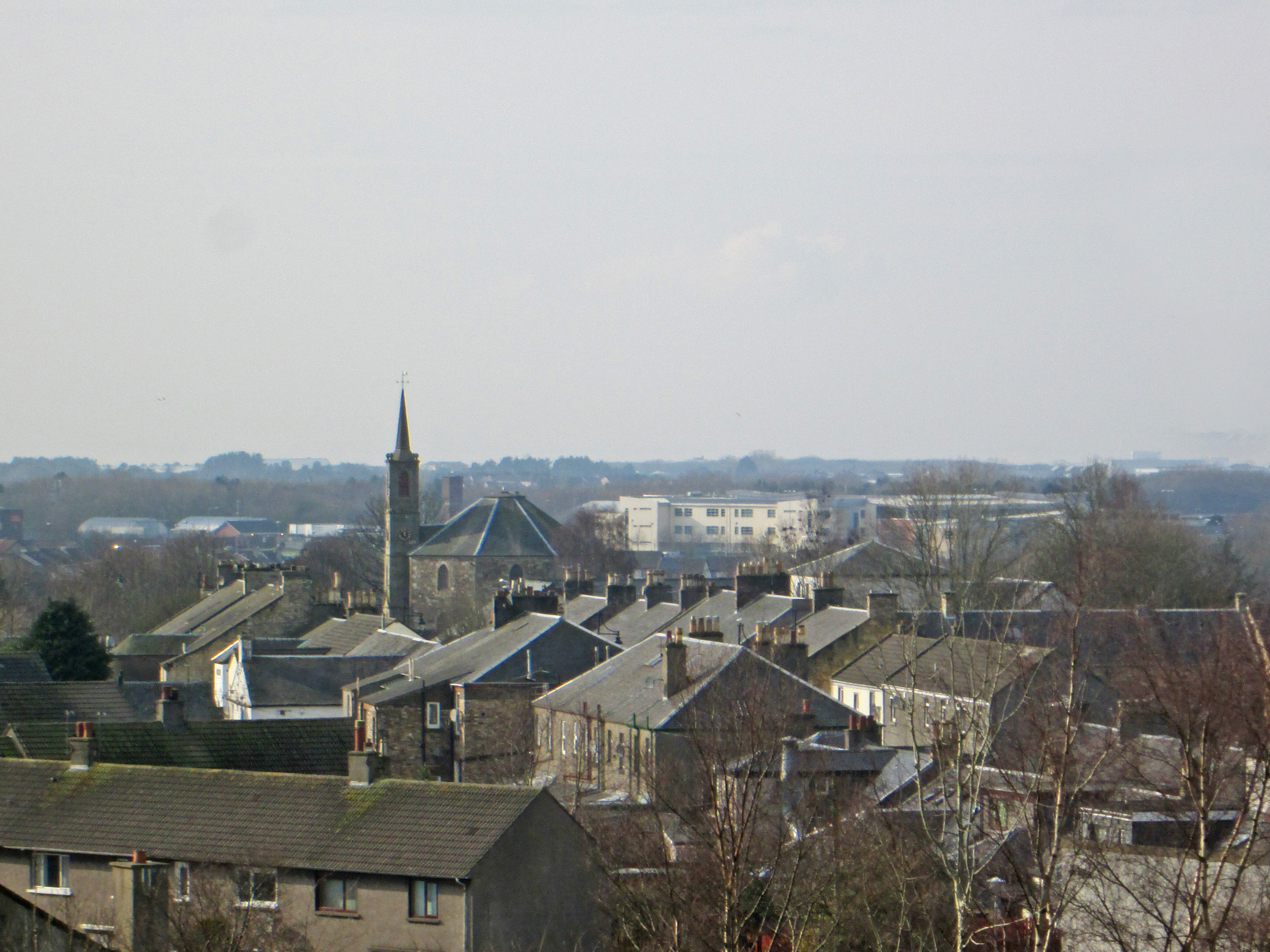 View of Dreghorn from its war memorial, looking west to the buildings of Main Street leading up to Dreghorn and Springside Parish Church at the high point of the ridge, with industrial buildings of Irvine, North Ayrshire, in the background.